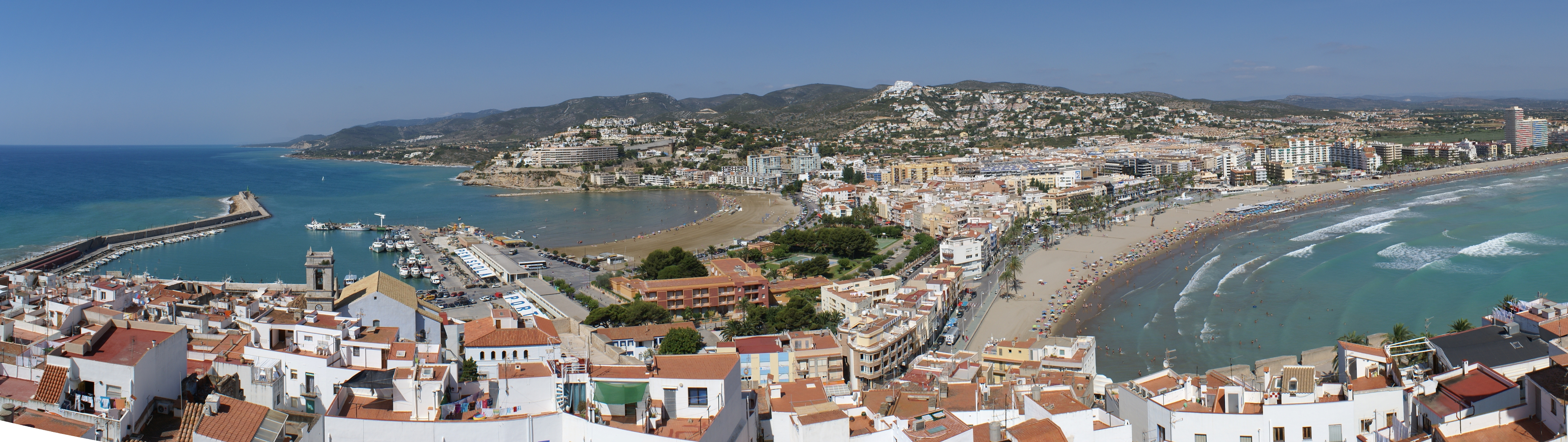 Panoramic view of Peñíscola (Castellón, Spain) from the castle.